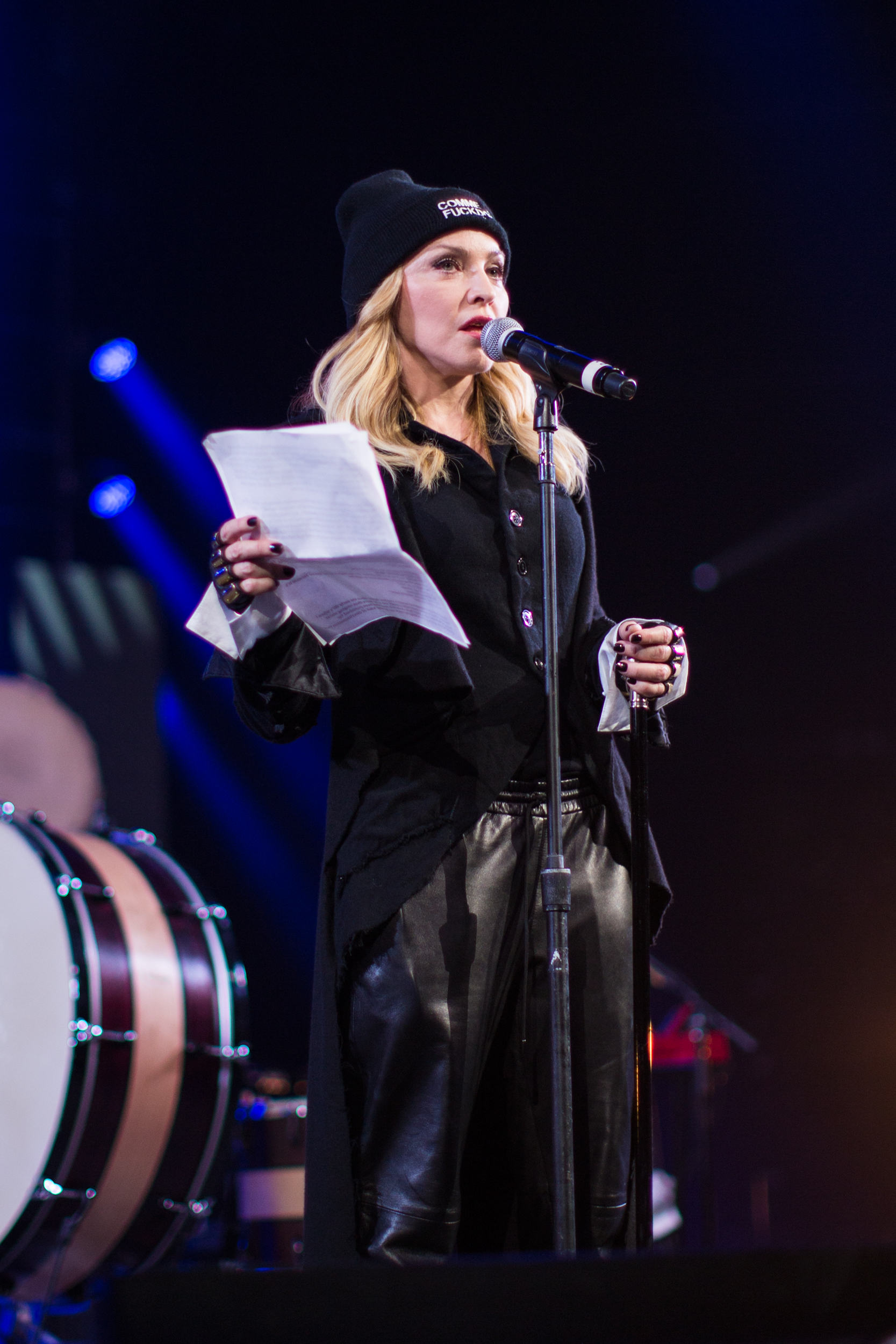 Madonna delivers a speech at the "Bringing Human Rights Home" concert organized by Amnesty International in New York City on February 5, 2014.